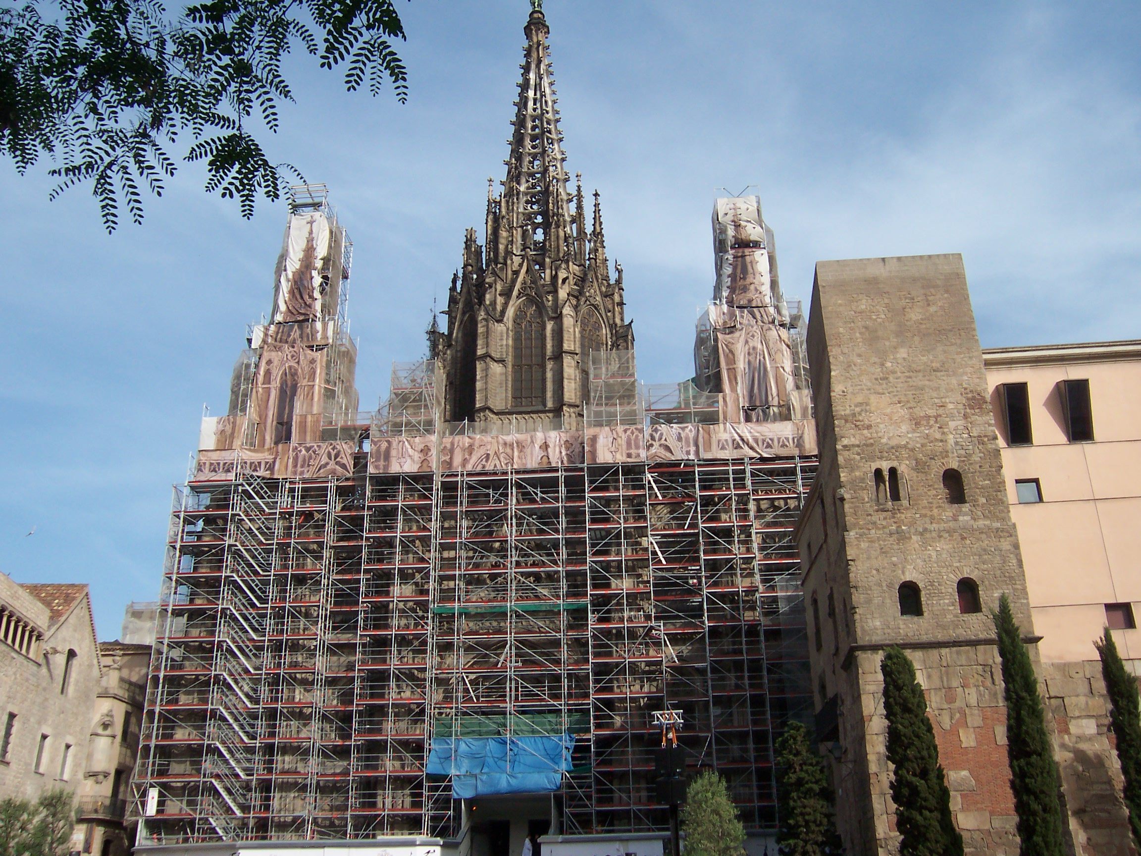 Barcelona Cathedral, in the process of being restored.